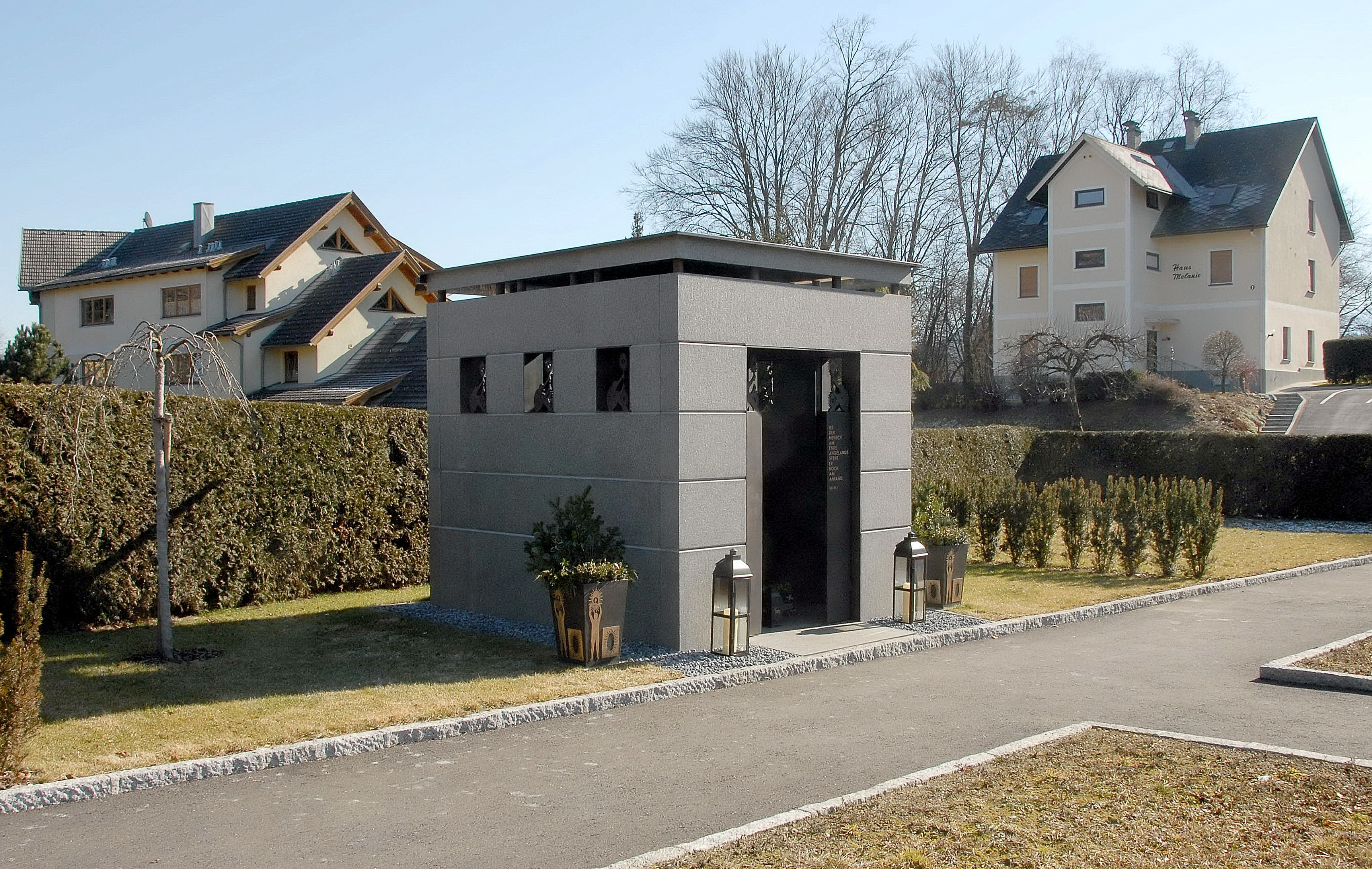 Friedrich Karl Flick`s mausoleum on the cemetery in Velden, district Villach-Land, Carinthia, Austria